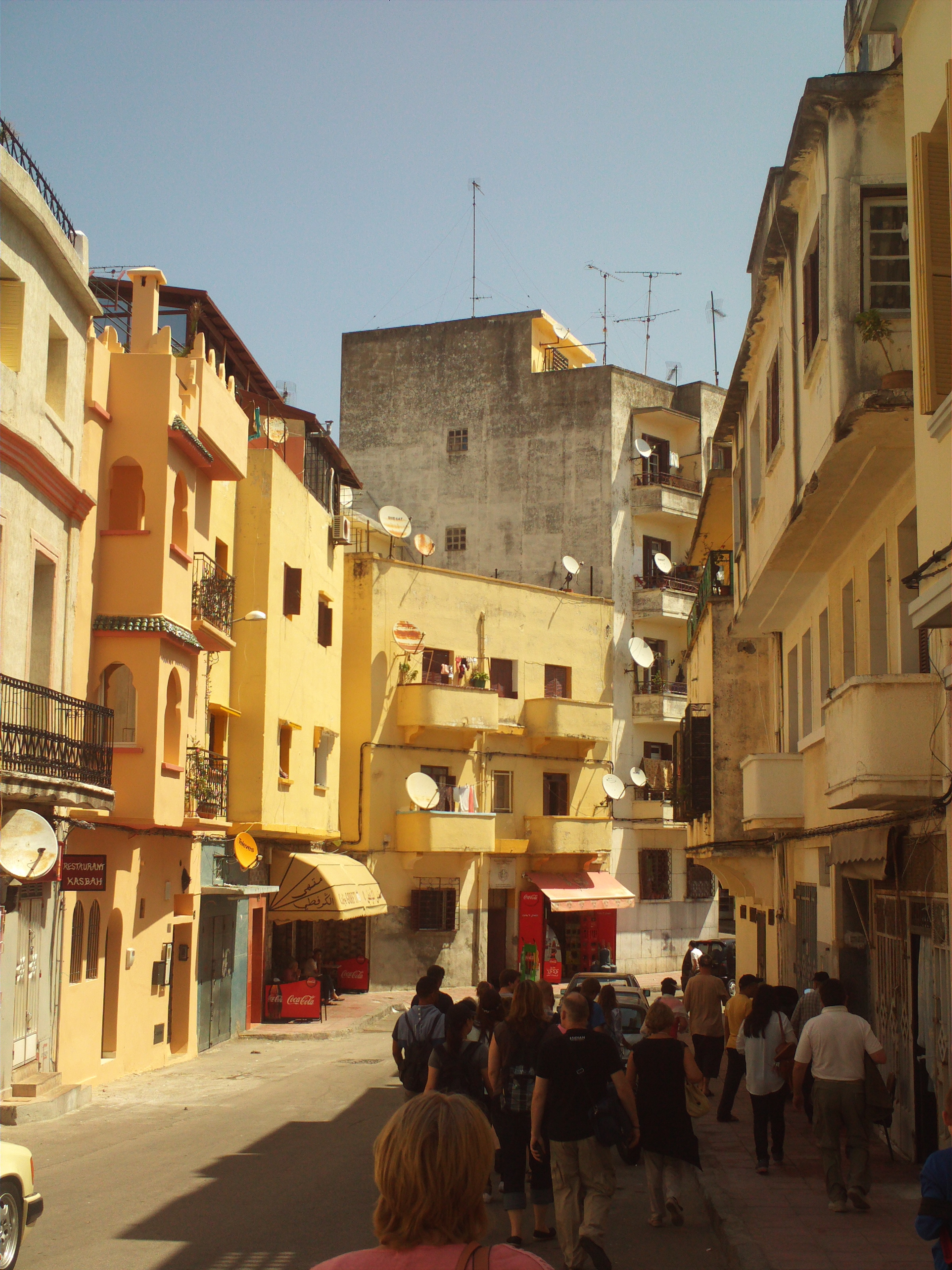 Street in the Medina of Tangier.